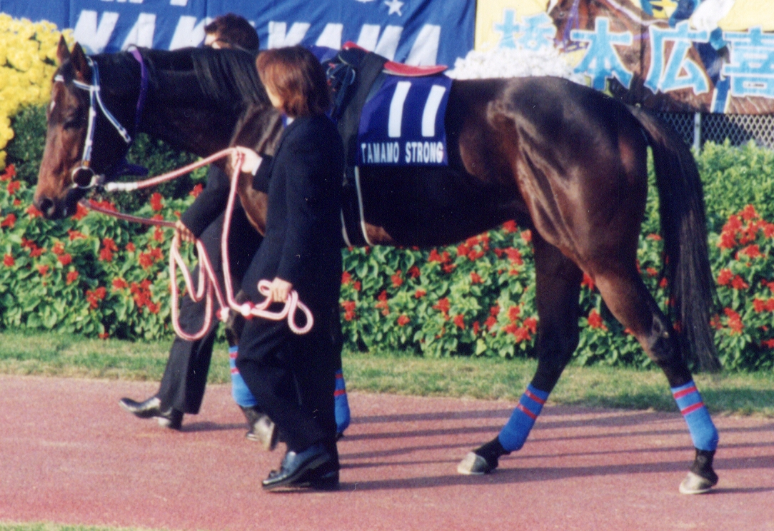 Tamamo Strong